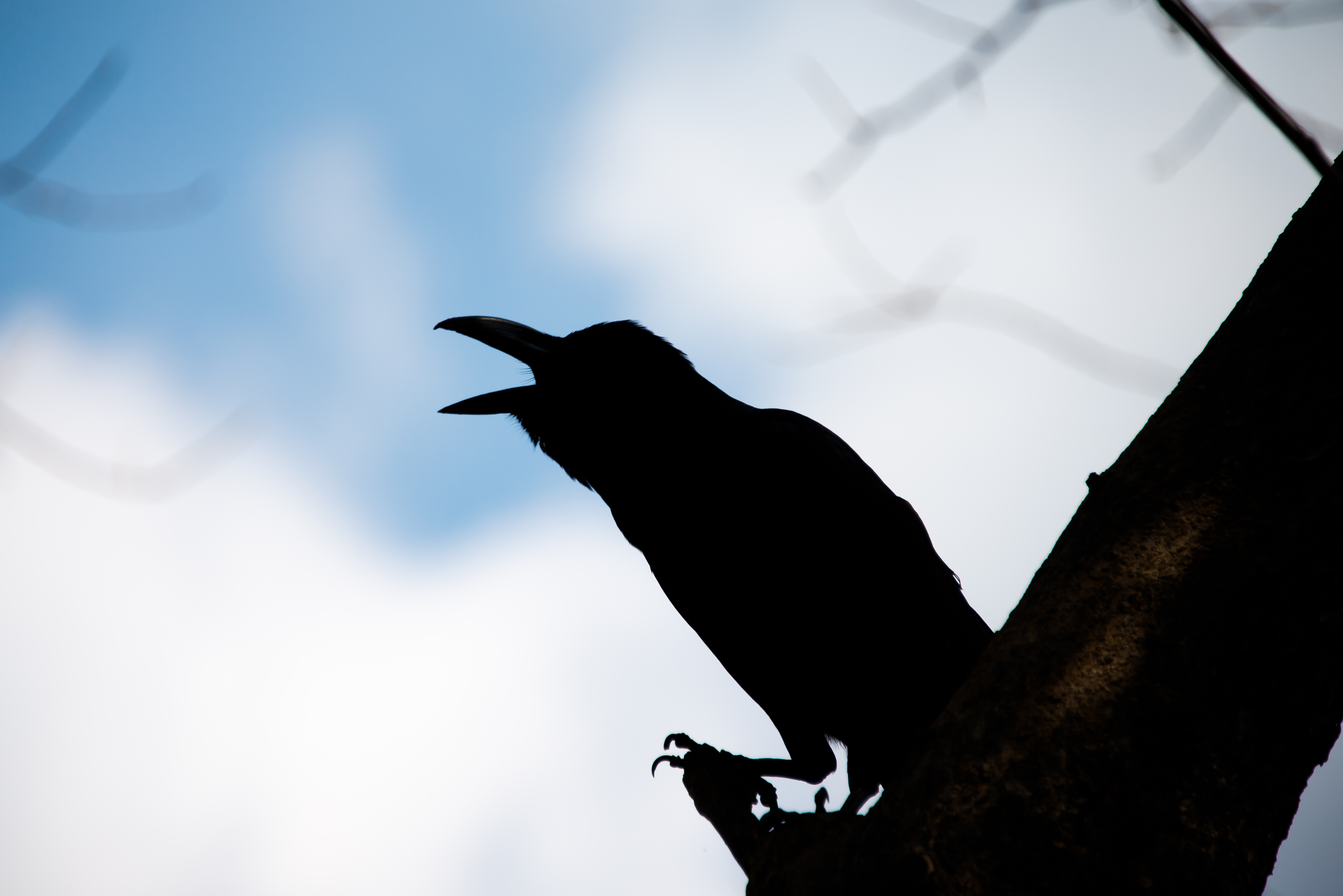 This photo is published under Creative Commons Attribution-Share-Alike Licence, means you are free to use this photo with attribution under same licence. When giving attribution, please use following; Owner: Thai National Parks Link